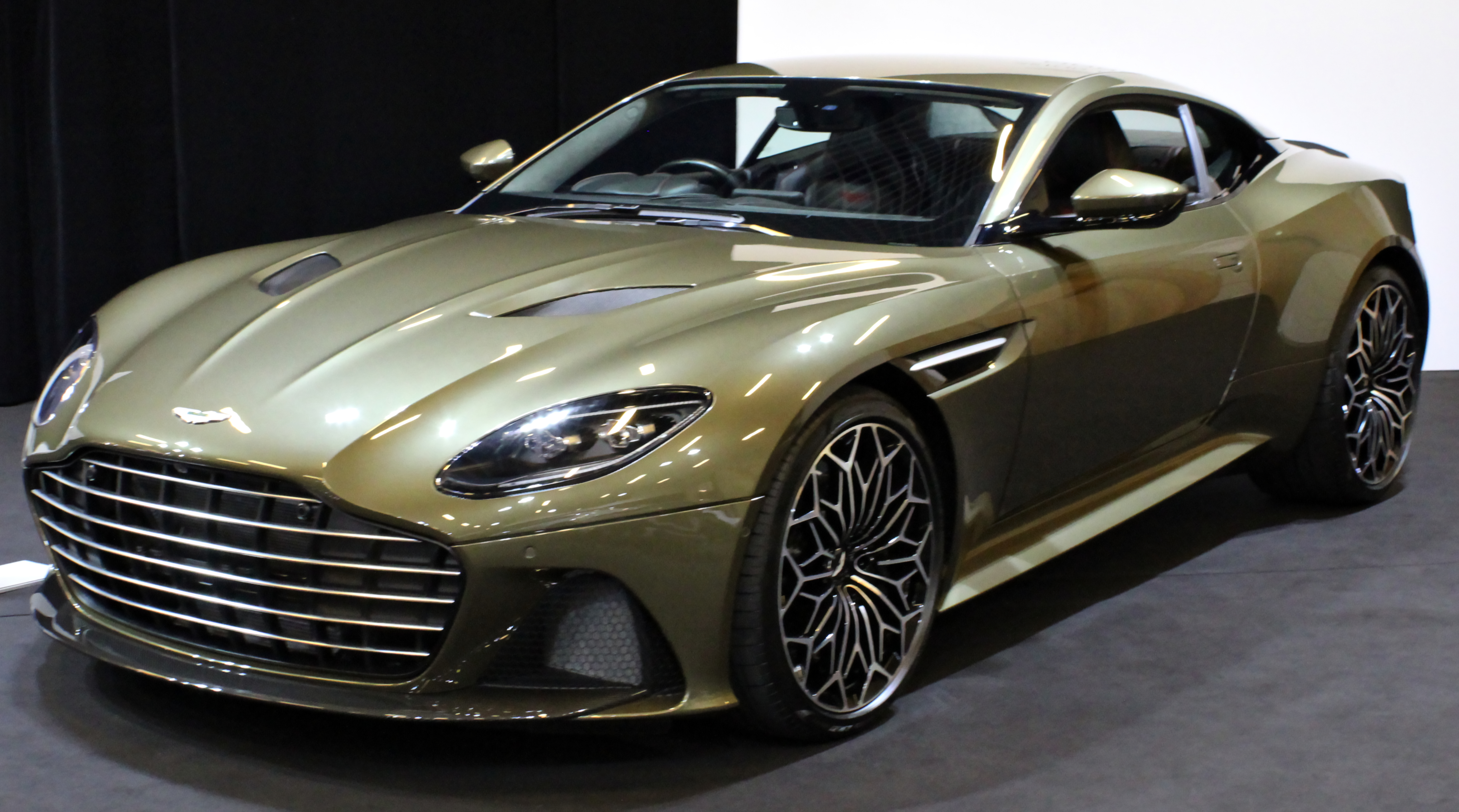 Aston Martin DBS Superleggera OHMSS at Top Marques 2019